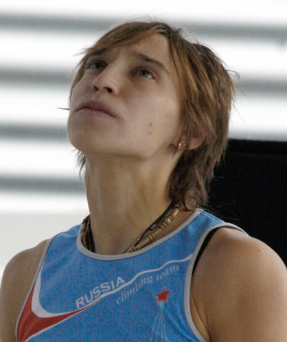 Yulia Abramchuk during qualifications at the IFSC Boulder Worldcup Vienna 2010.